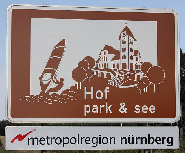 information sign "Hof — park and see")